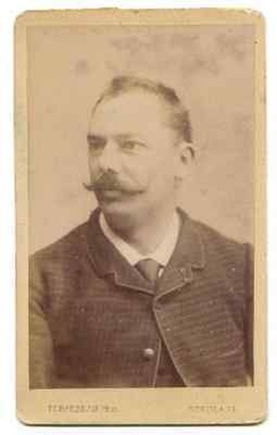 Jules Remy, french naturalist,1888